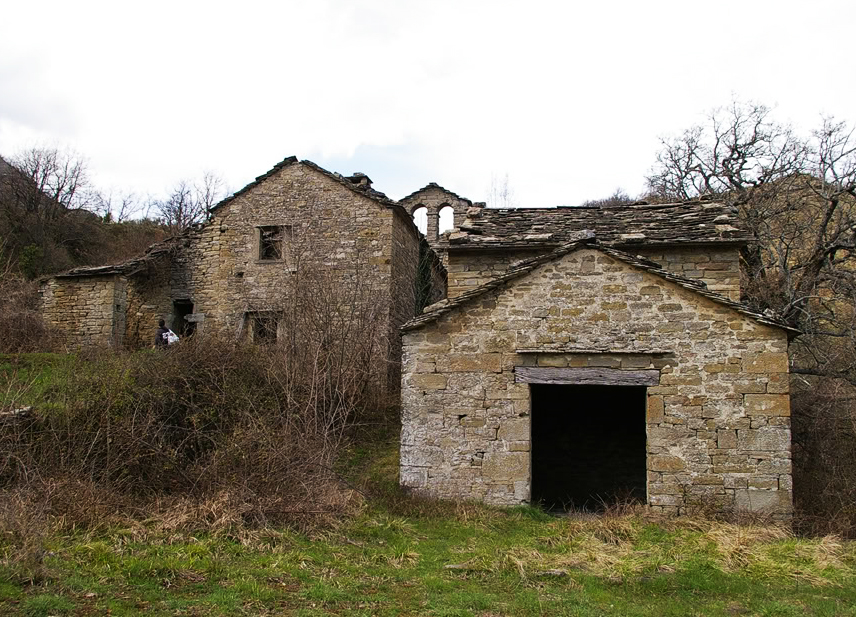 The southern entrance to Brento Sanico.